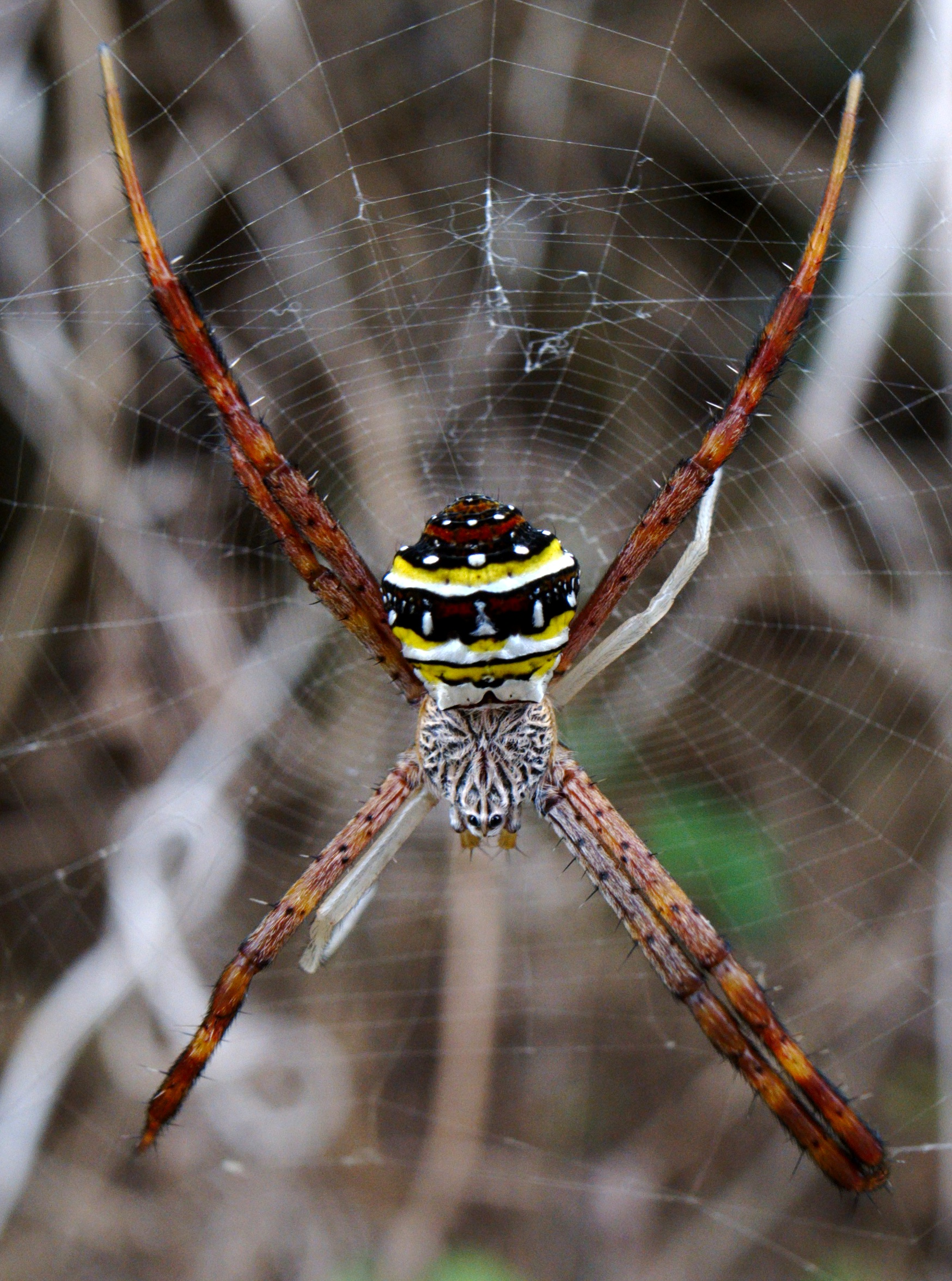 Dorsal view of female Argiope aetheroides